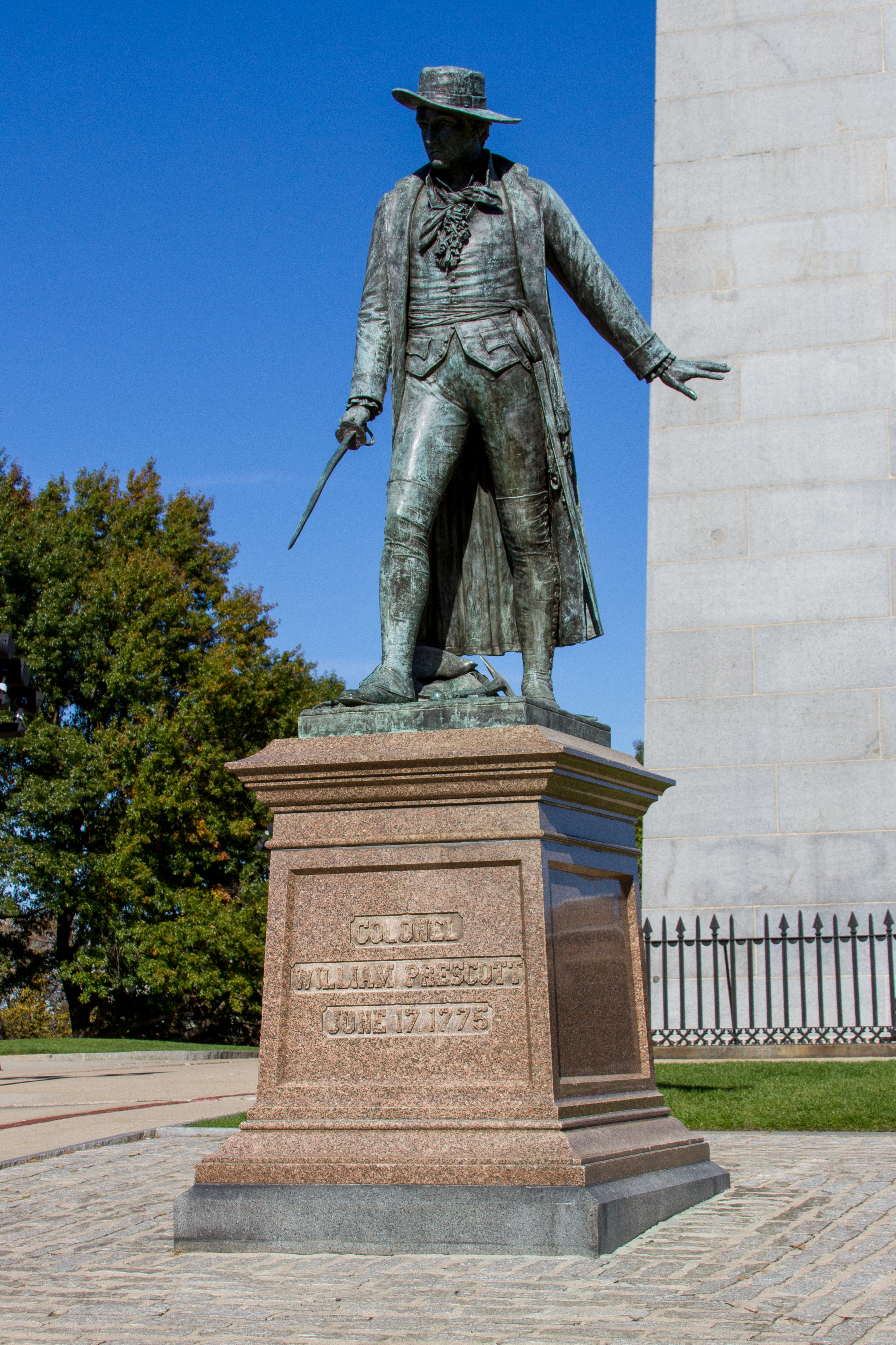 A statue of Colonel William Prescott at Bunker Hill in Boston, Massachusetts.